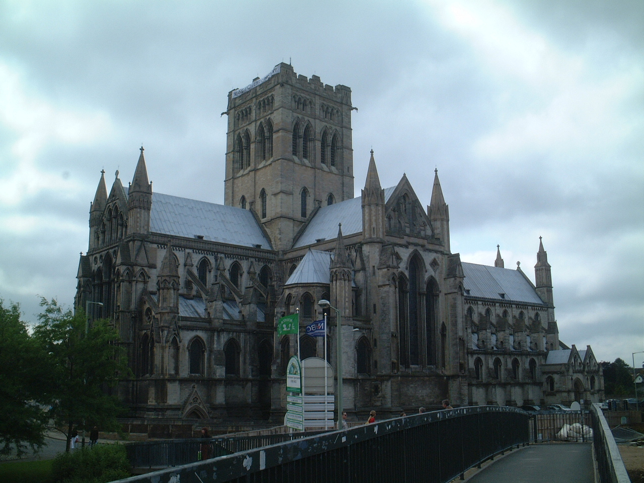 The Roman Catholic Cathedral of St. John the Baptist, on Earlham Road in Norwich, England. Photo taken on a FujiFilm Finepix 40i digital camera by Paul Hayes in 2005, and uploaded to Wikimedia by same.